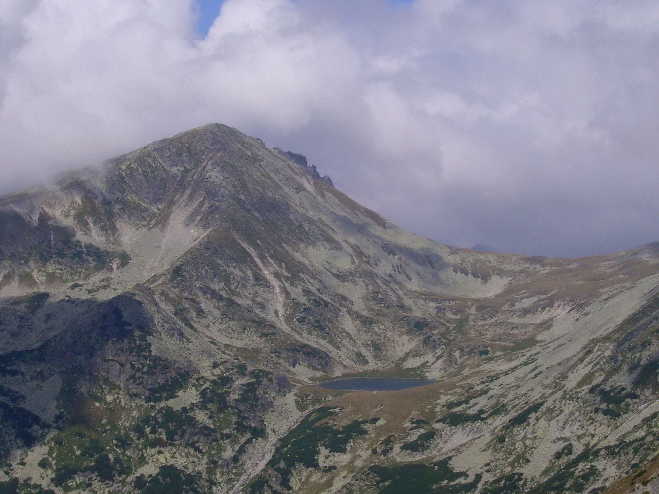 Peleaga, a mountain in Romania